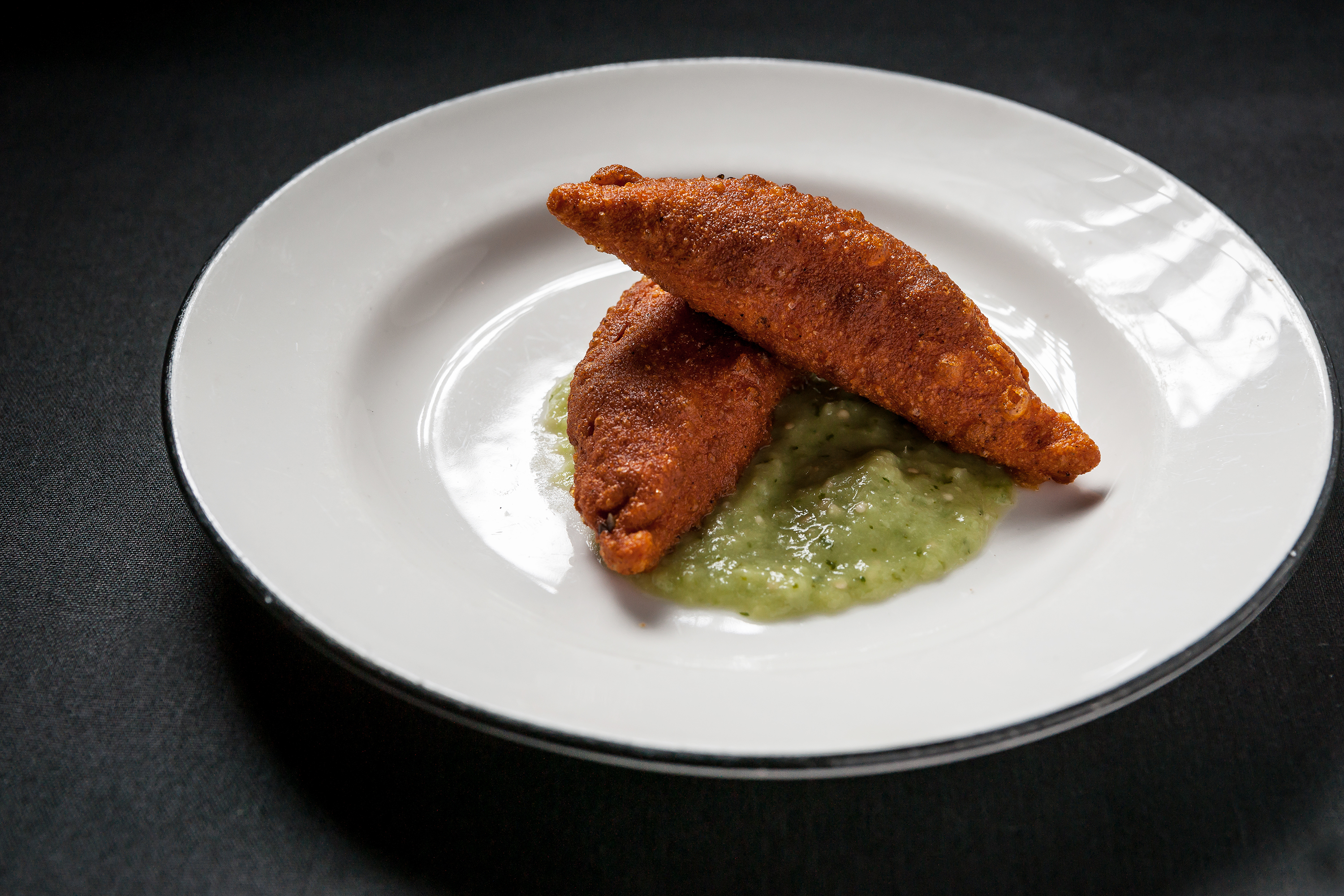 Mexican Crab Molotes with California Avocado Tomatillo Salsa